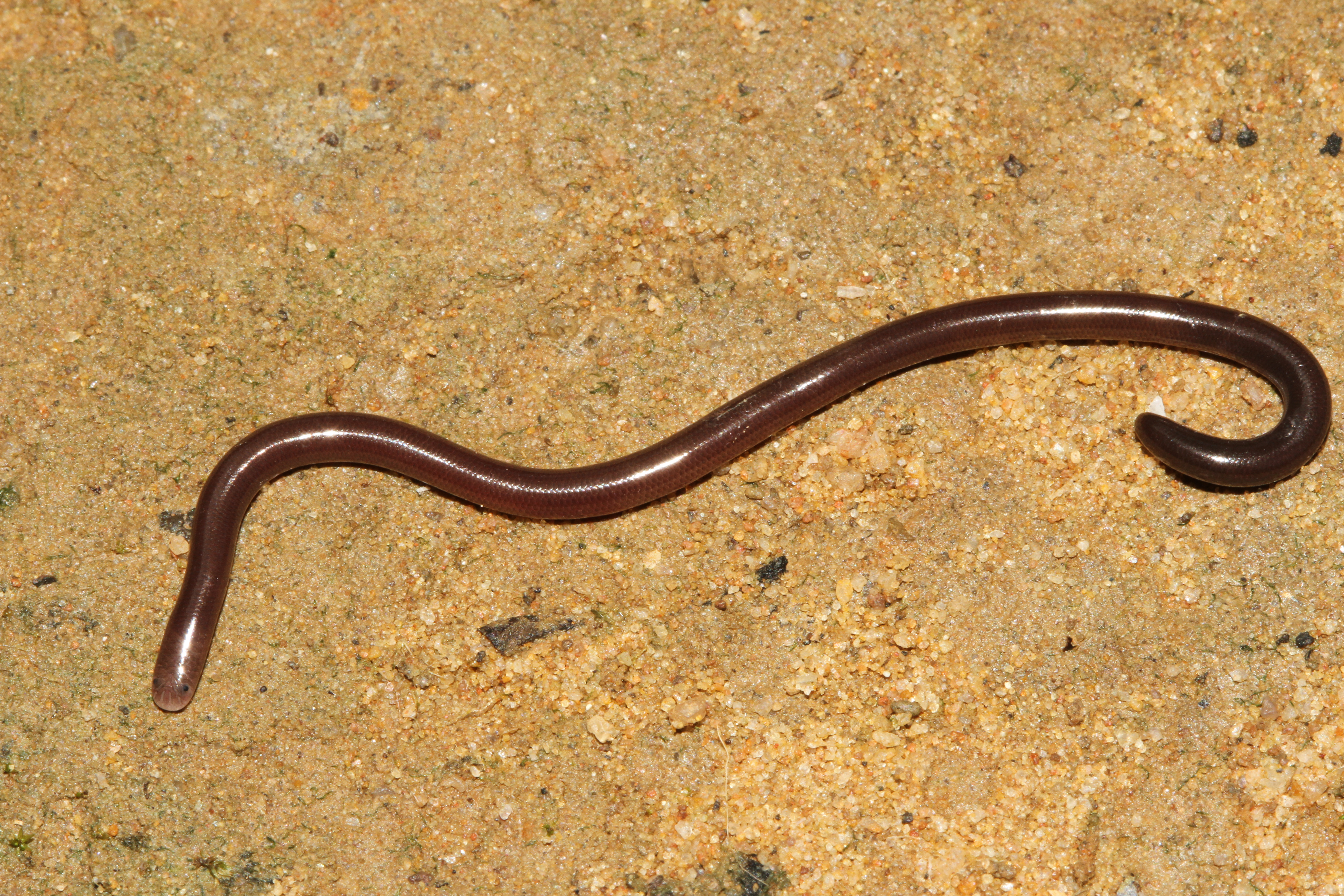 Reptiles from India